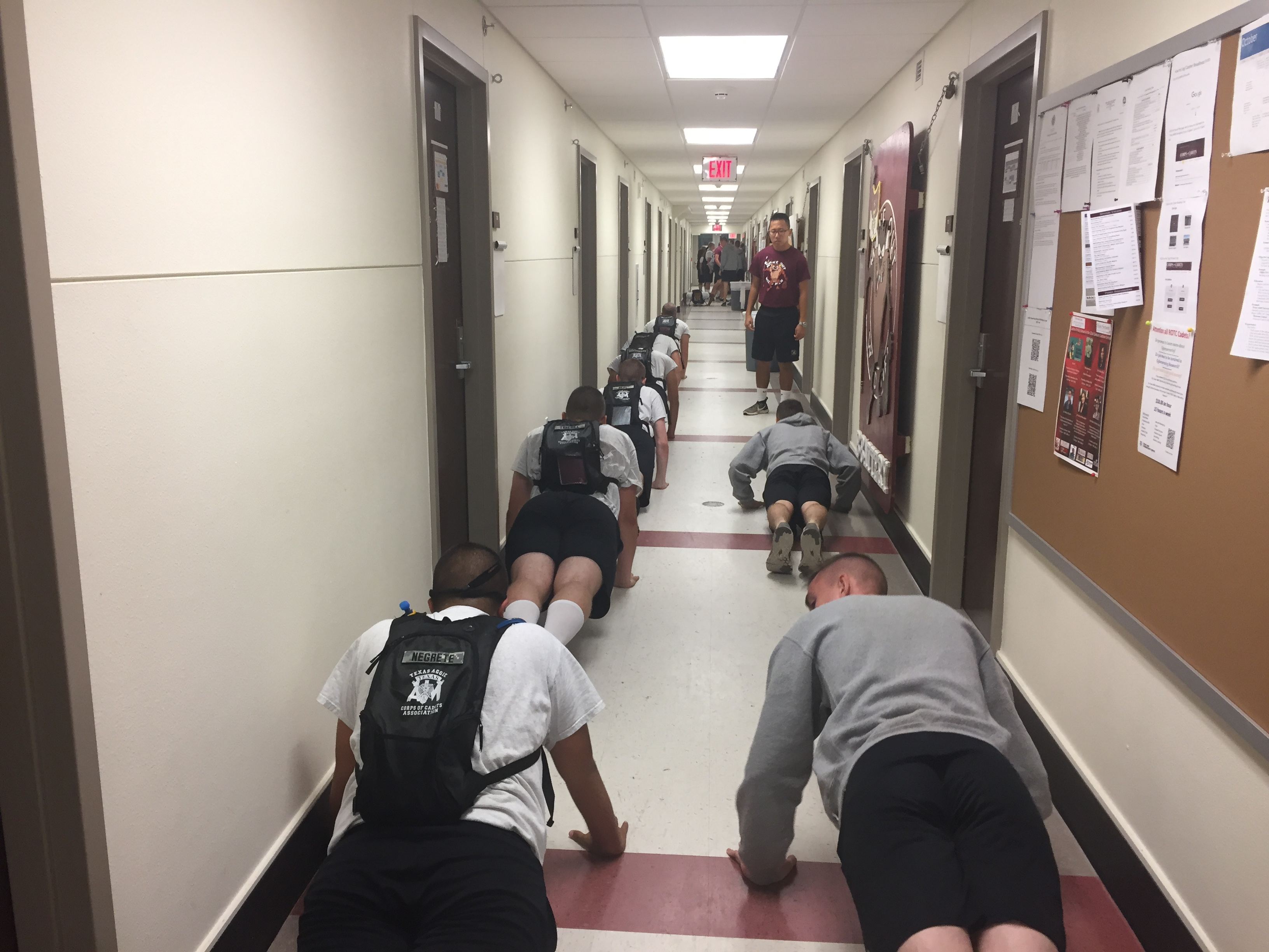 Cadets conduct morning military training at Texas A&M University in College Station, Texas